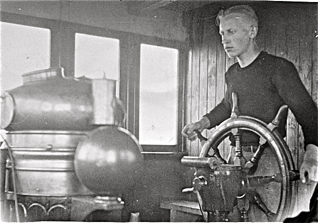 Digitization of a photo of Ivar Kalmar at the wheel of SS Kuressaar in 1938.